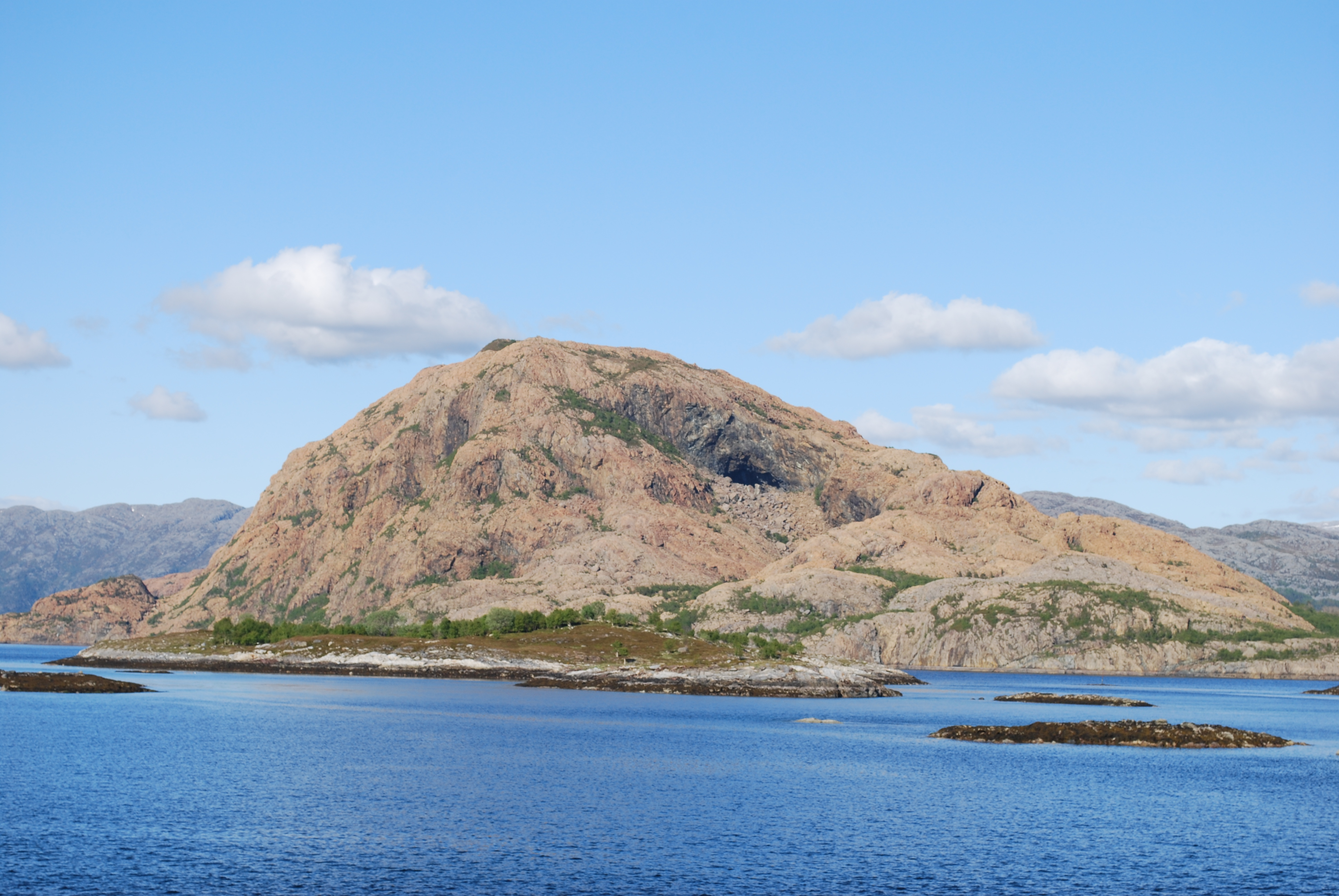 Pic from Tro and Flatøy in North of Norway.